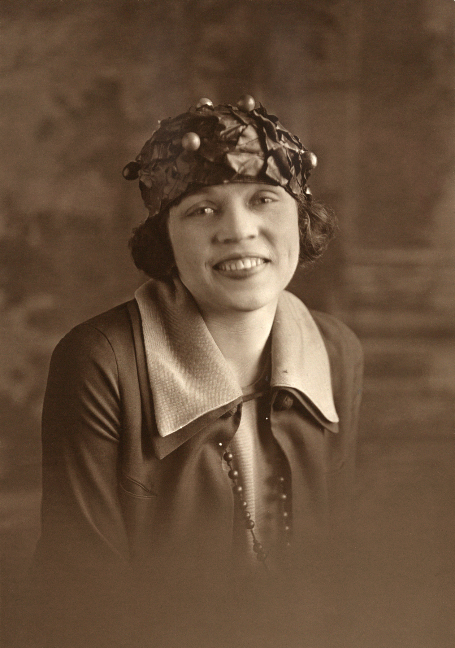 Portrait of Nell Mercer, member of the Norfolk branch of the National Woman's Party, circa 1910-20.